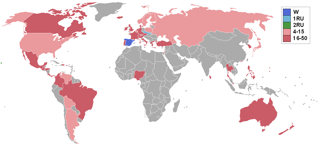 ms international 1990 results map